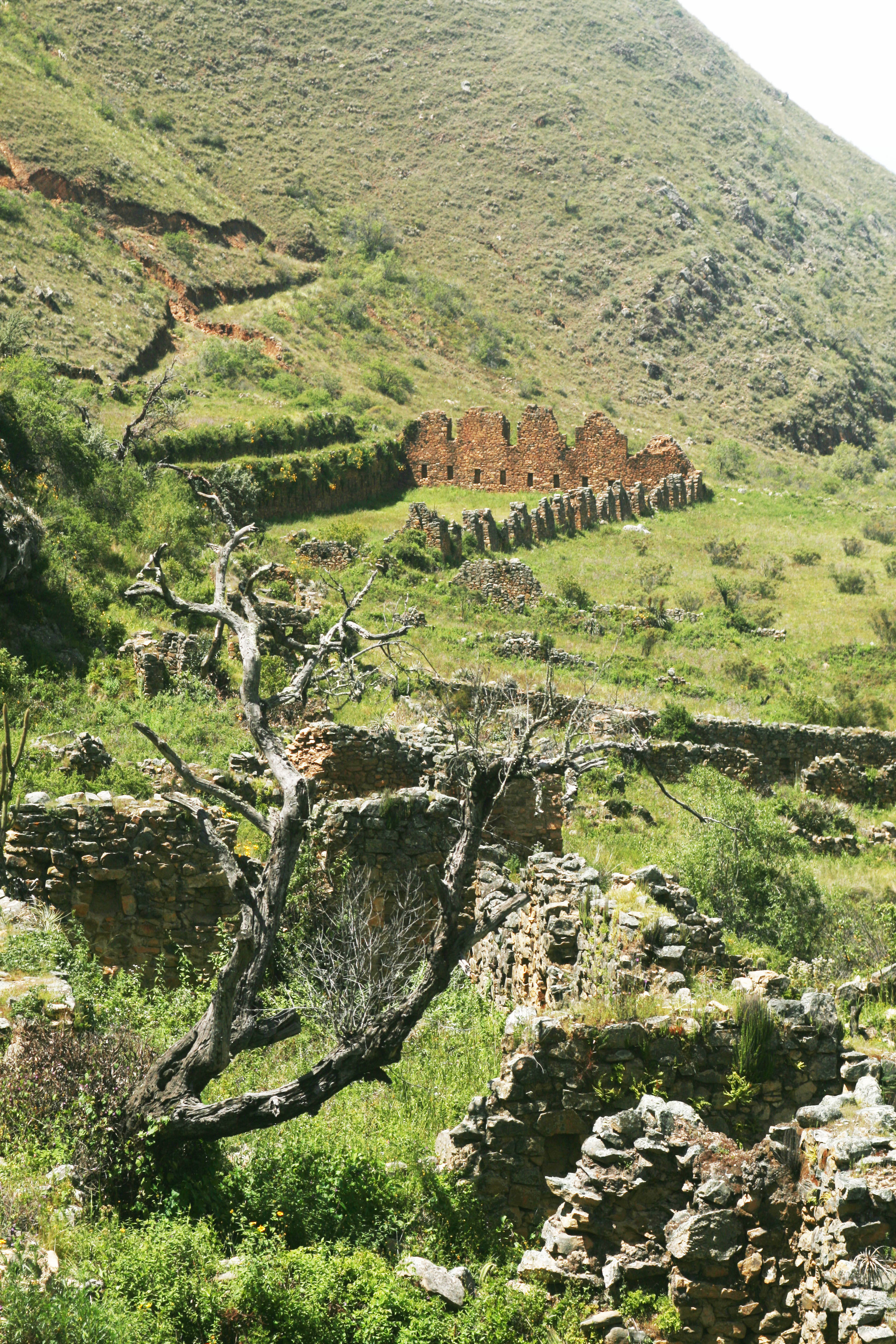 Incallajta, a collection of Inca ruins in Cochabamba department, central Bolivia.